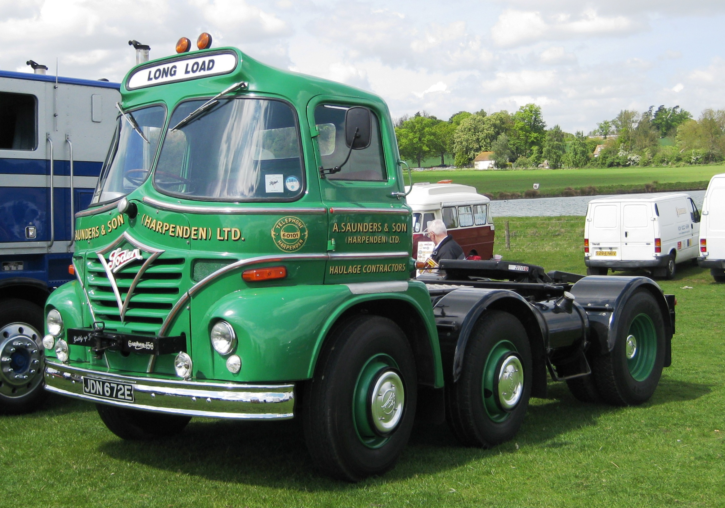 Foden heavy truck with Gardner diesel.